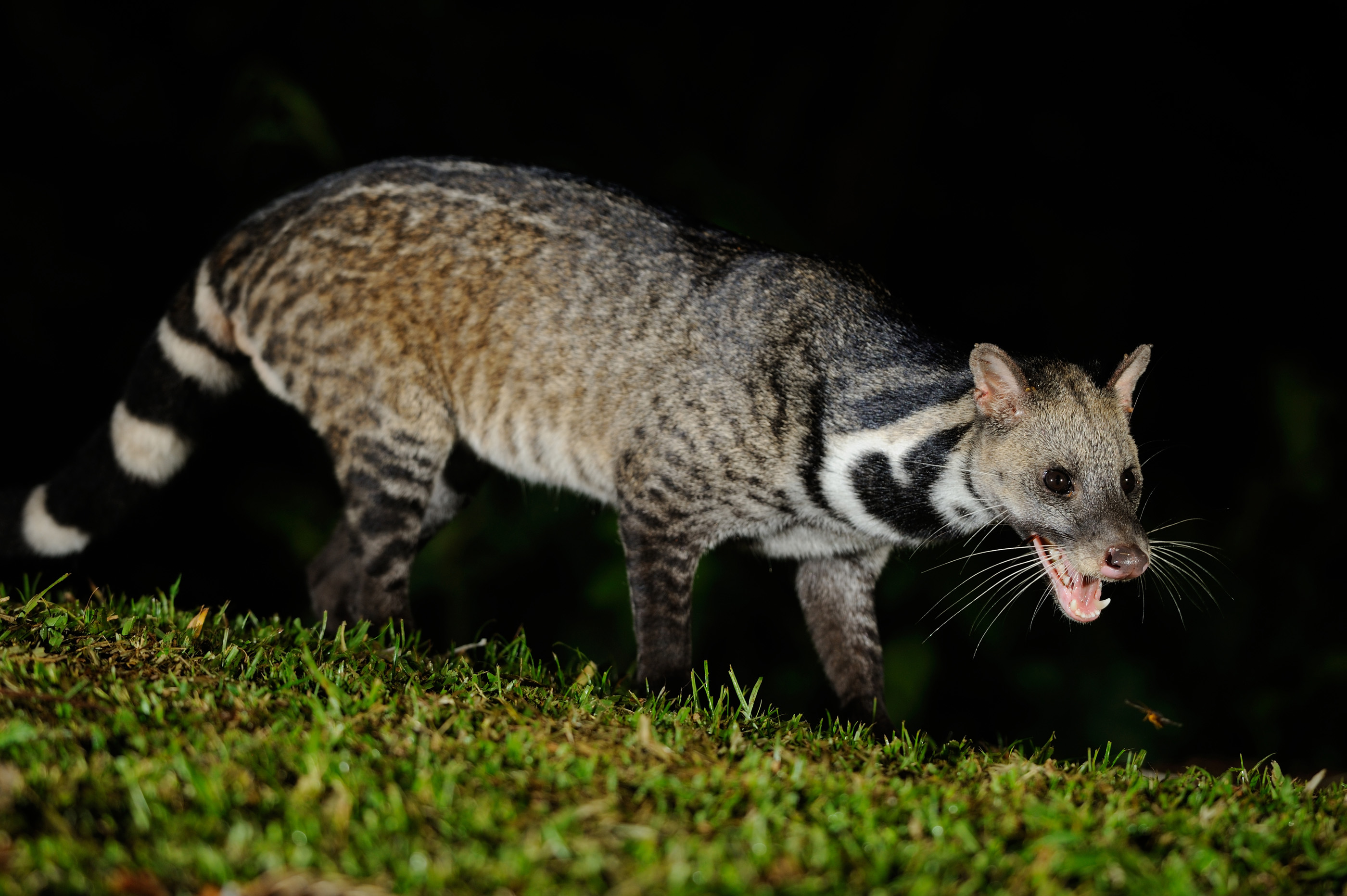 Large Indian Civet, Viverra zibetha in Kaeng Krachan national park